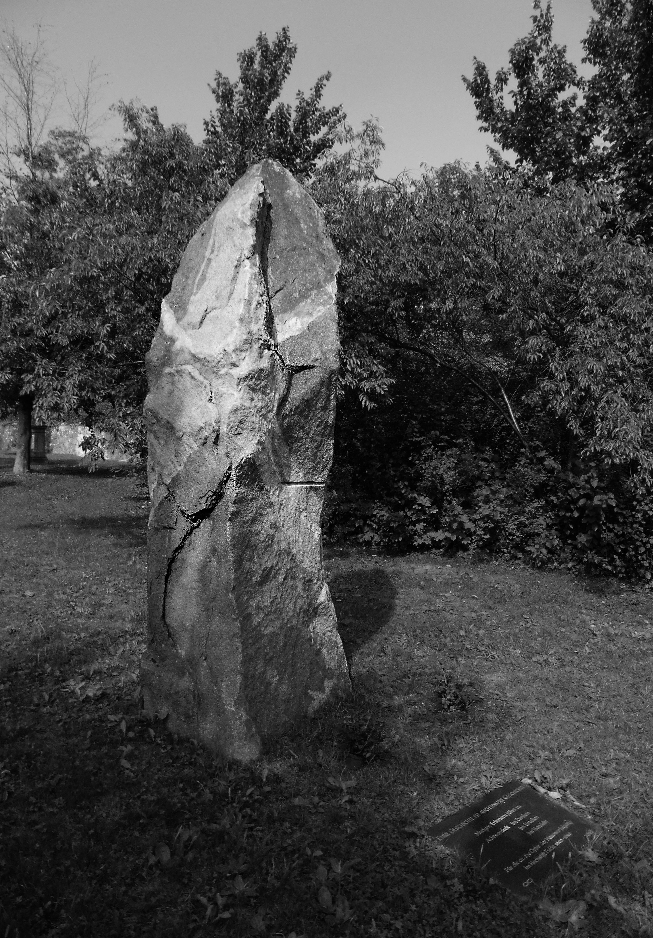 Memorial for the ca. 270 victims of the witch trails in Fulda 1600-1606 established 2008 on the old cemetery near the cathedral. Material: Undressed granite and brazen plate. Seen from south.